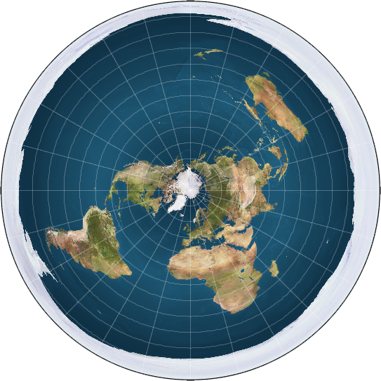 An azimuthal equidistant projection of the entire spherical Earth. A rendered picture of the Flat Earth model. The white around the outside of the globe is thought to be an 'Ice Wall', preventing people from falling off the surface of the earth.